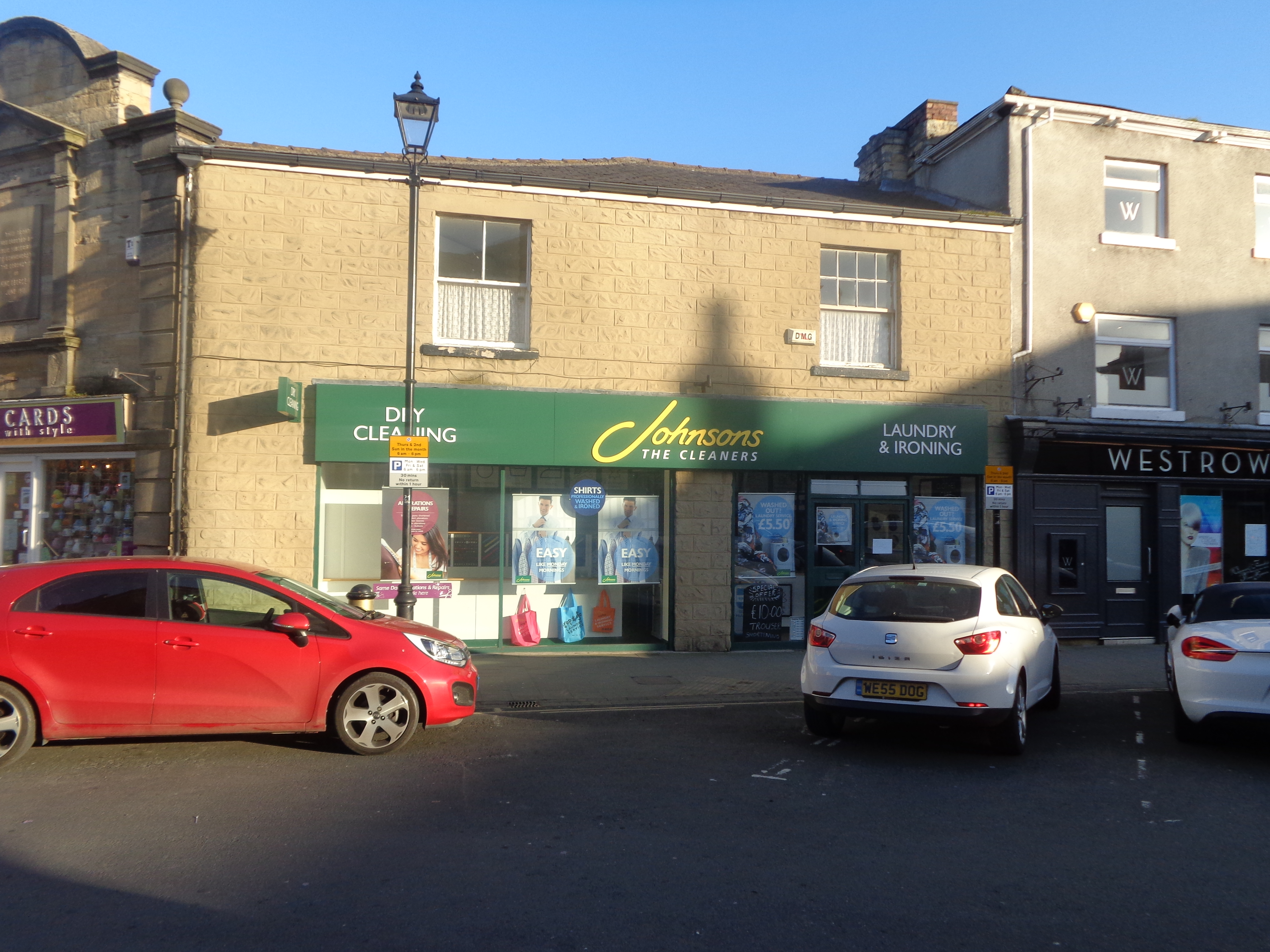 Johnson's Dry Cleaners, Market Place, Wetherby, West Yorkshire. Taken on the evening of Good Friday the 18th of April 2014.